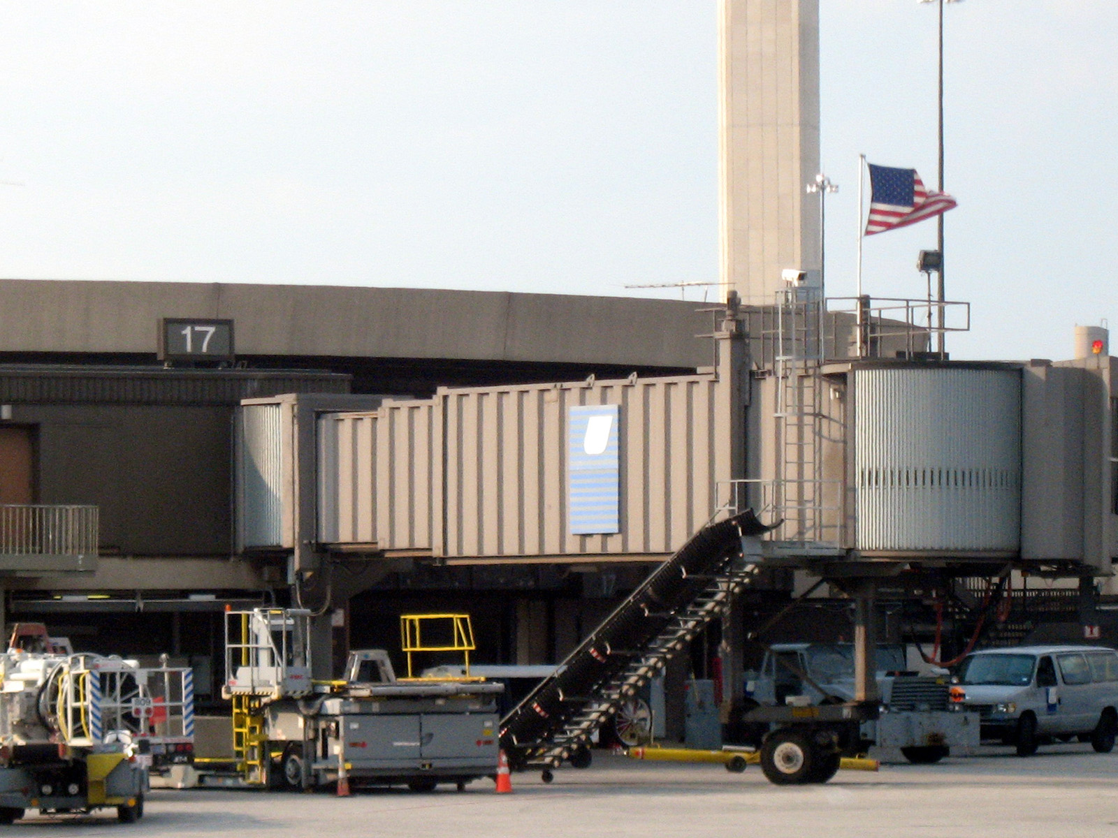 An American flag flies over Gate 17 of Terminal A at Newark Liberty International Airport. On September 11, 2001, United Airlines Flight 93 pushed back from the gate at 8:01 am, headed for San Francisco. Passengers learned about the coordinated attacks, and tried to overtake the airplane, resulting in the plane crashing into a field in Shanksville, Pennsylvania.